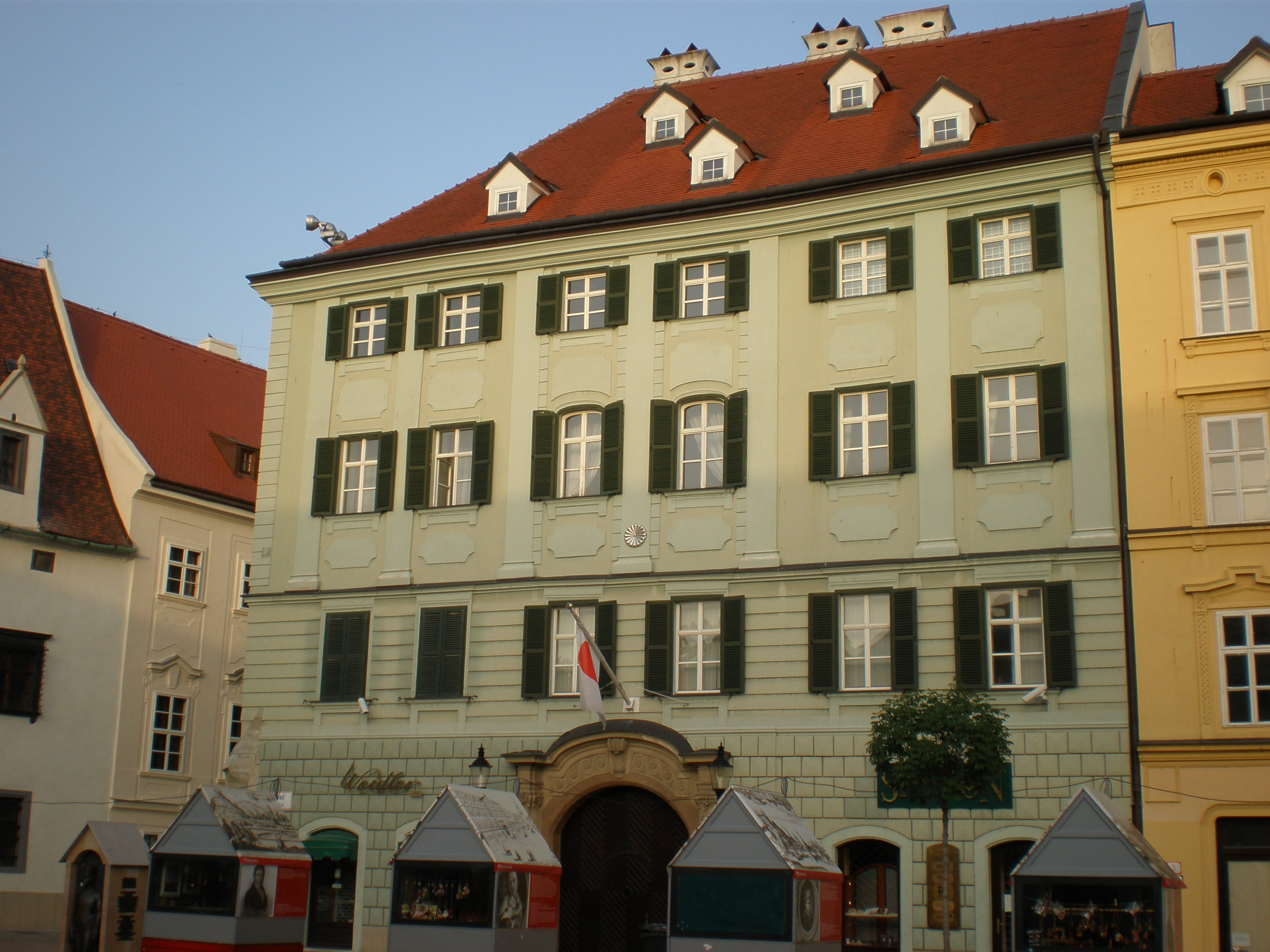 Embassy of Japan in Bratislava, Slovakia.